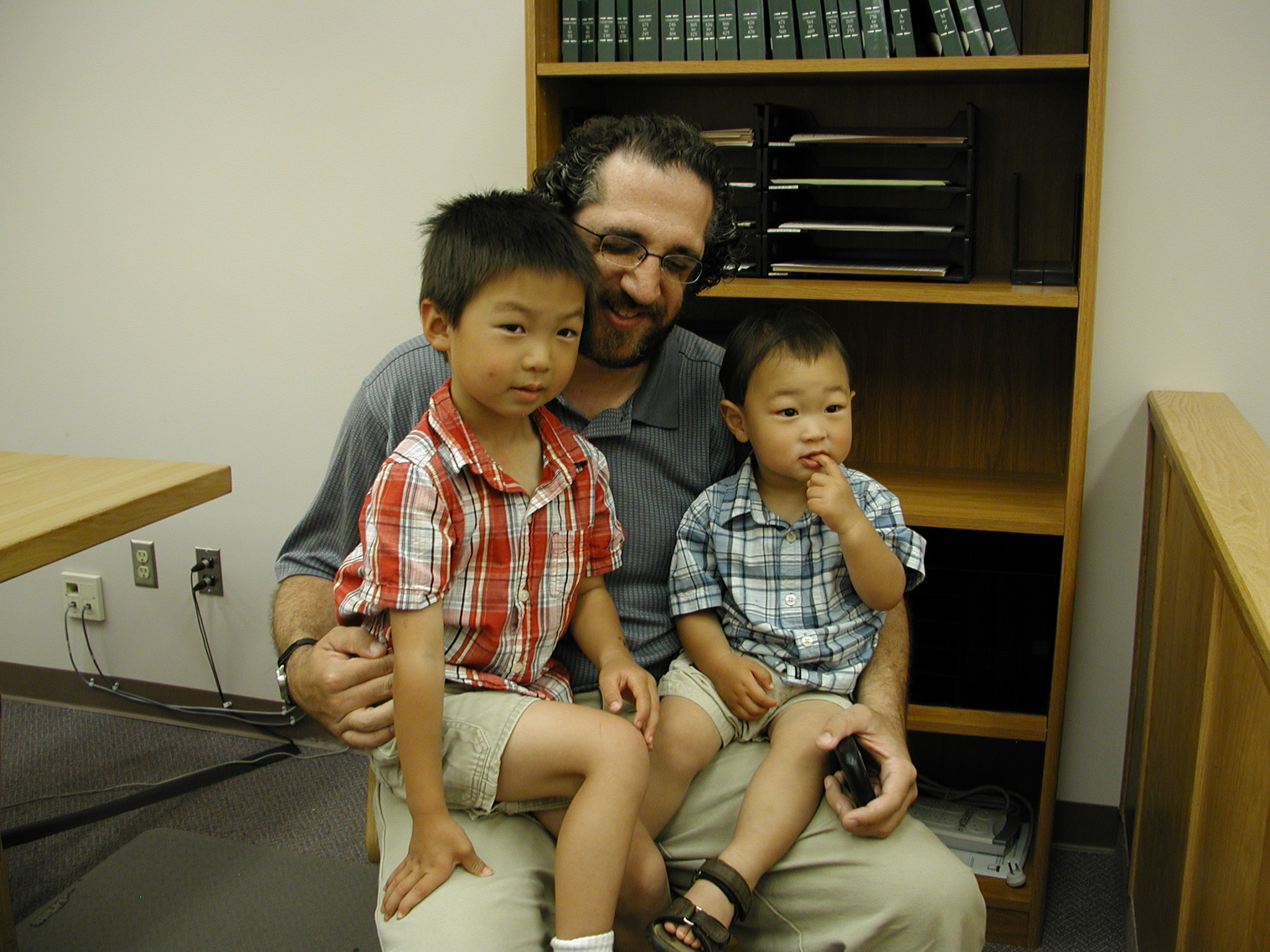 father and adopted children